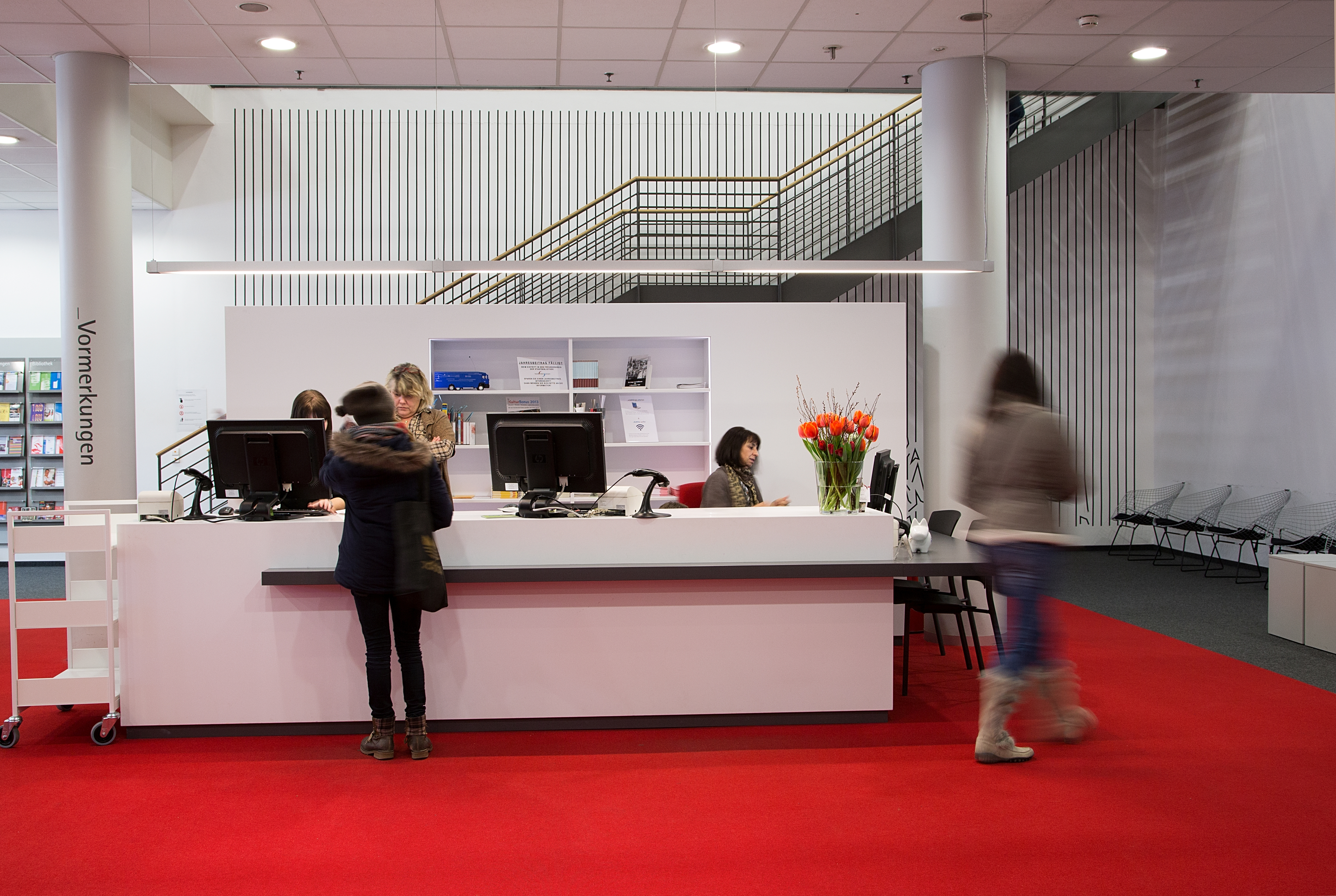 Public Library of Heilbronn